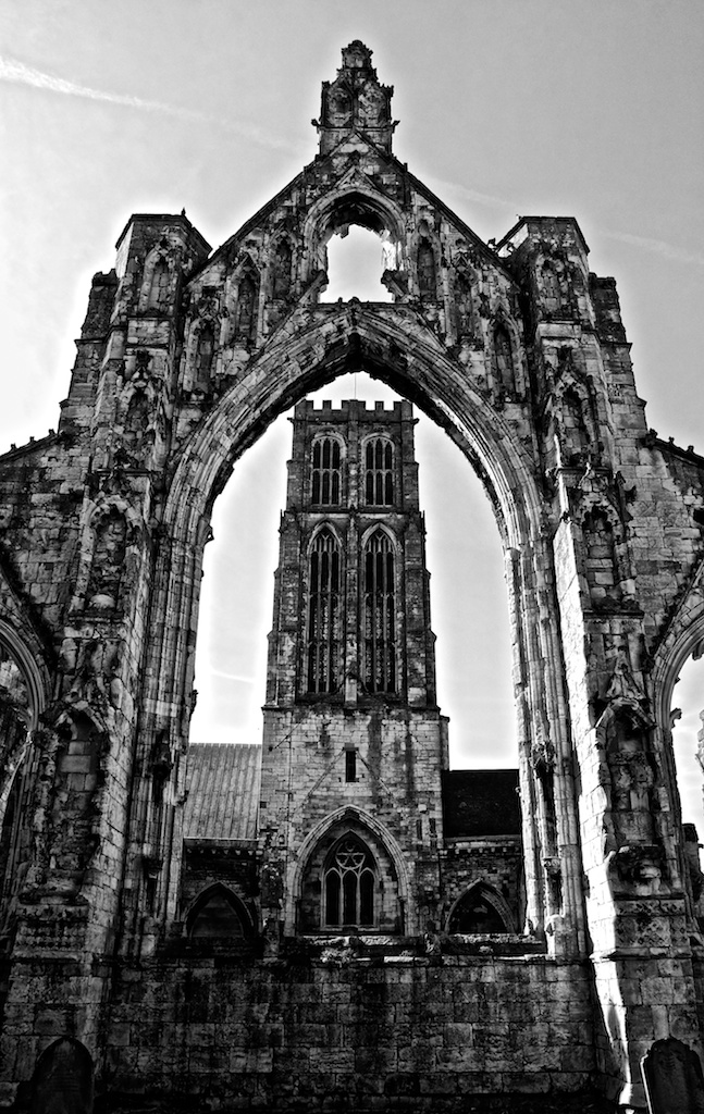 Overlooking the ruins of Howden Minster, Howden, East Riding of Yorkshire, England